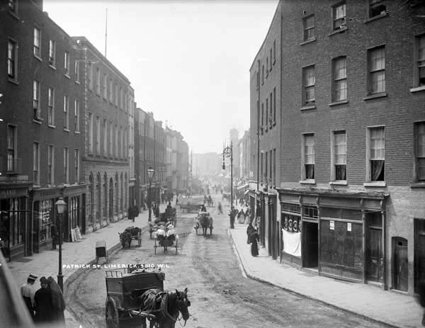 Photograph taken between 1880 and 1914 Format: glass negative Part of: National Library of Ireland Lawrence Collection. For more photographs in this collection see National Library of Ireland catalogue: Reference number: L_ROY_09810